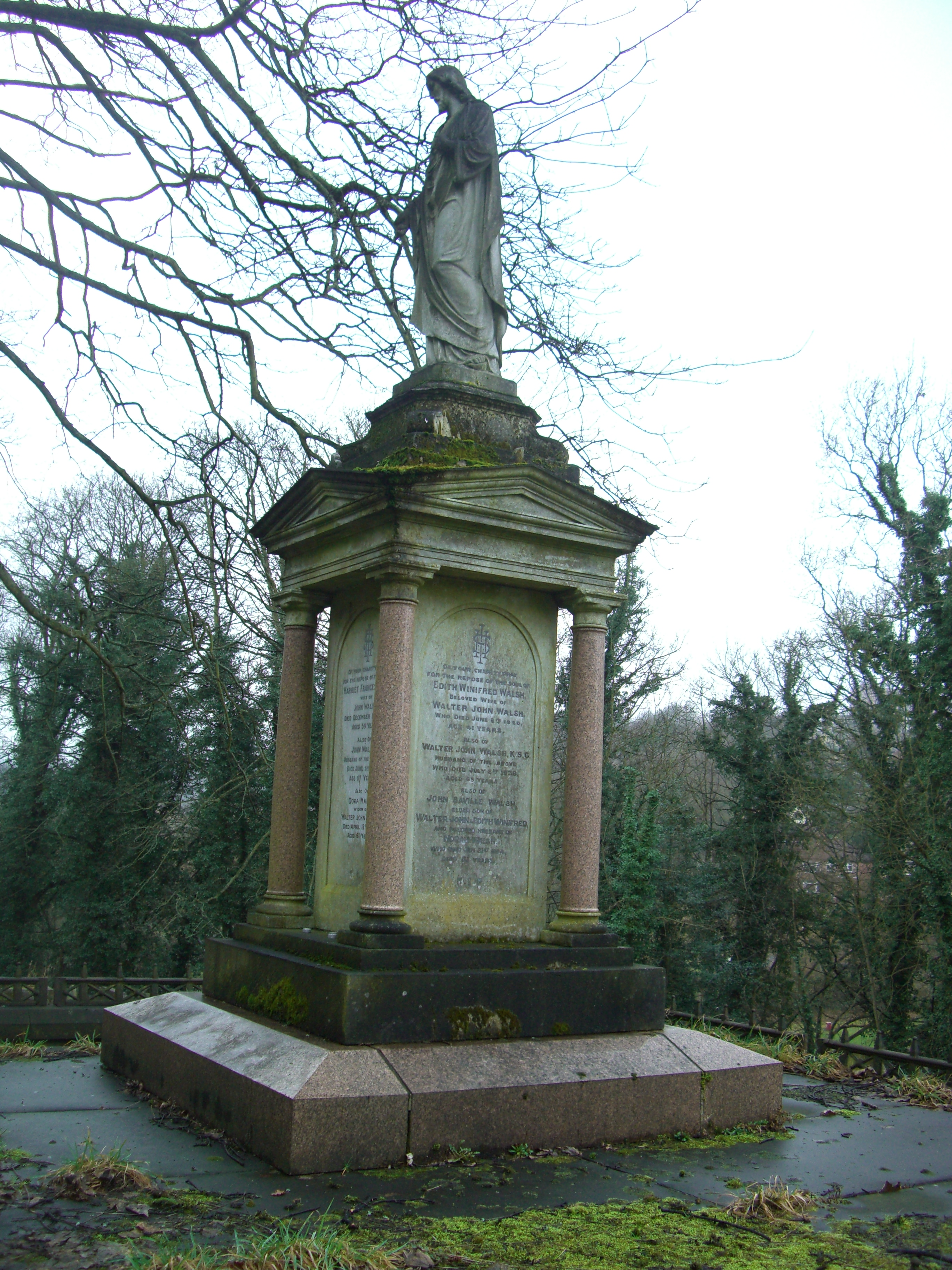 Walsh family memorial at St Michael's cemetery, Rivelin, Sheffield, England